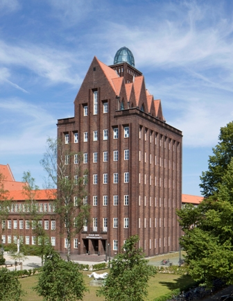 Haus der Wissenschaft with cupola. Andreas Bormann